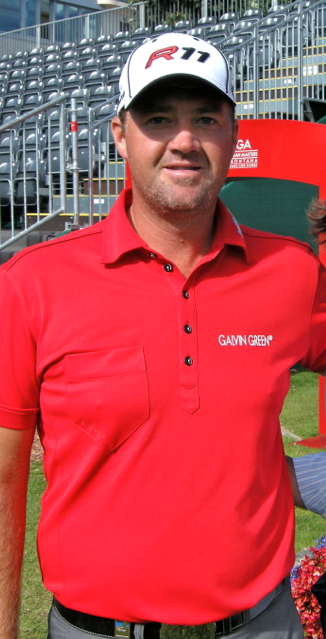 Peter Hanson during the Omega European Masters 2011 in Crans sur Sierre, Switzerland